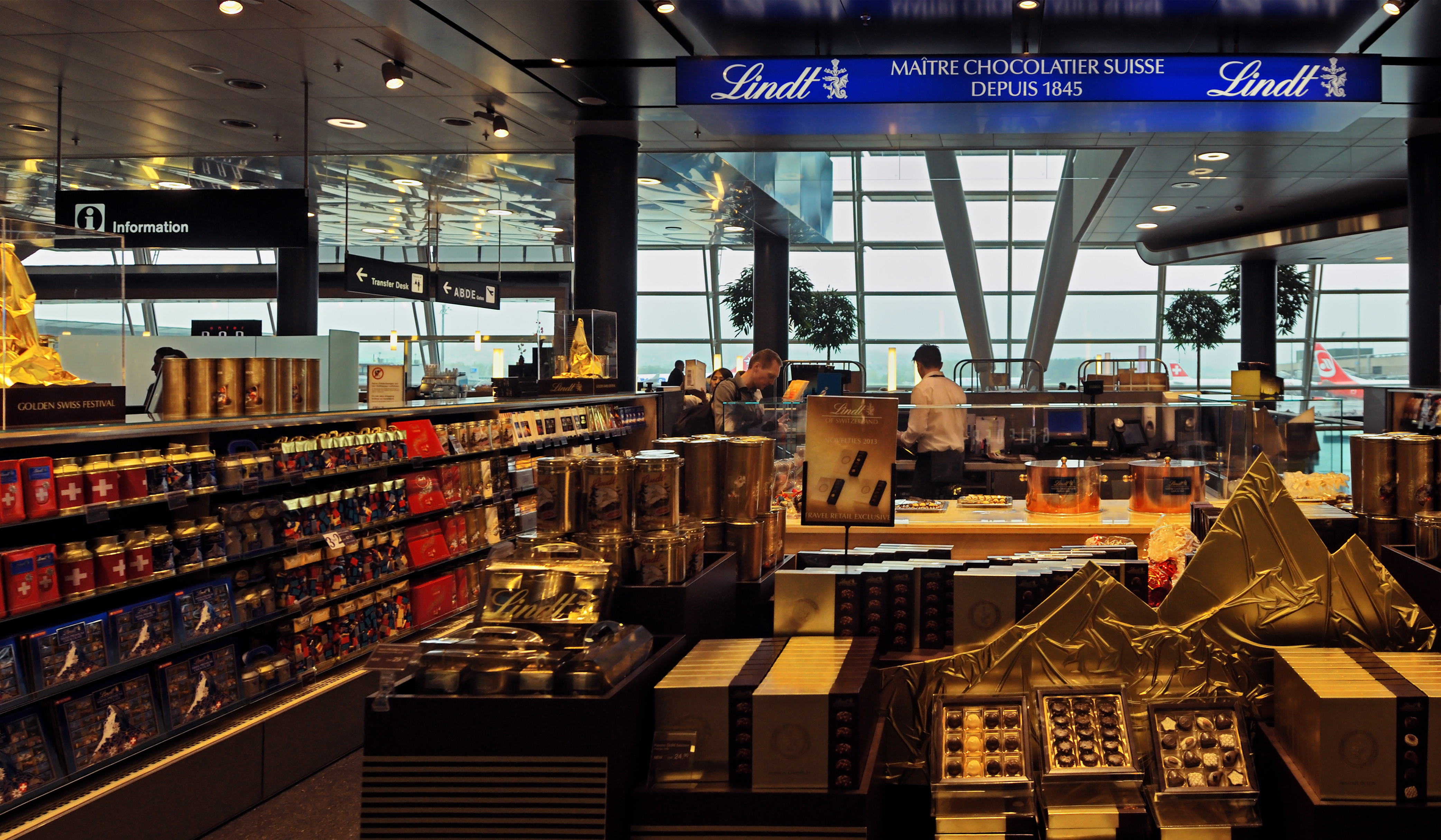 At the Zurich Airport. Switzerland